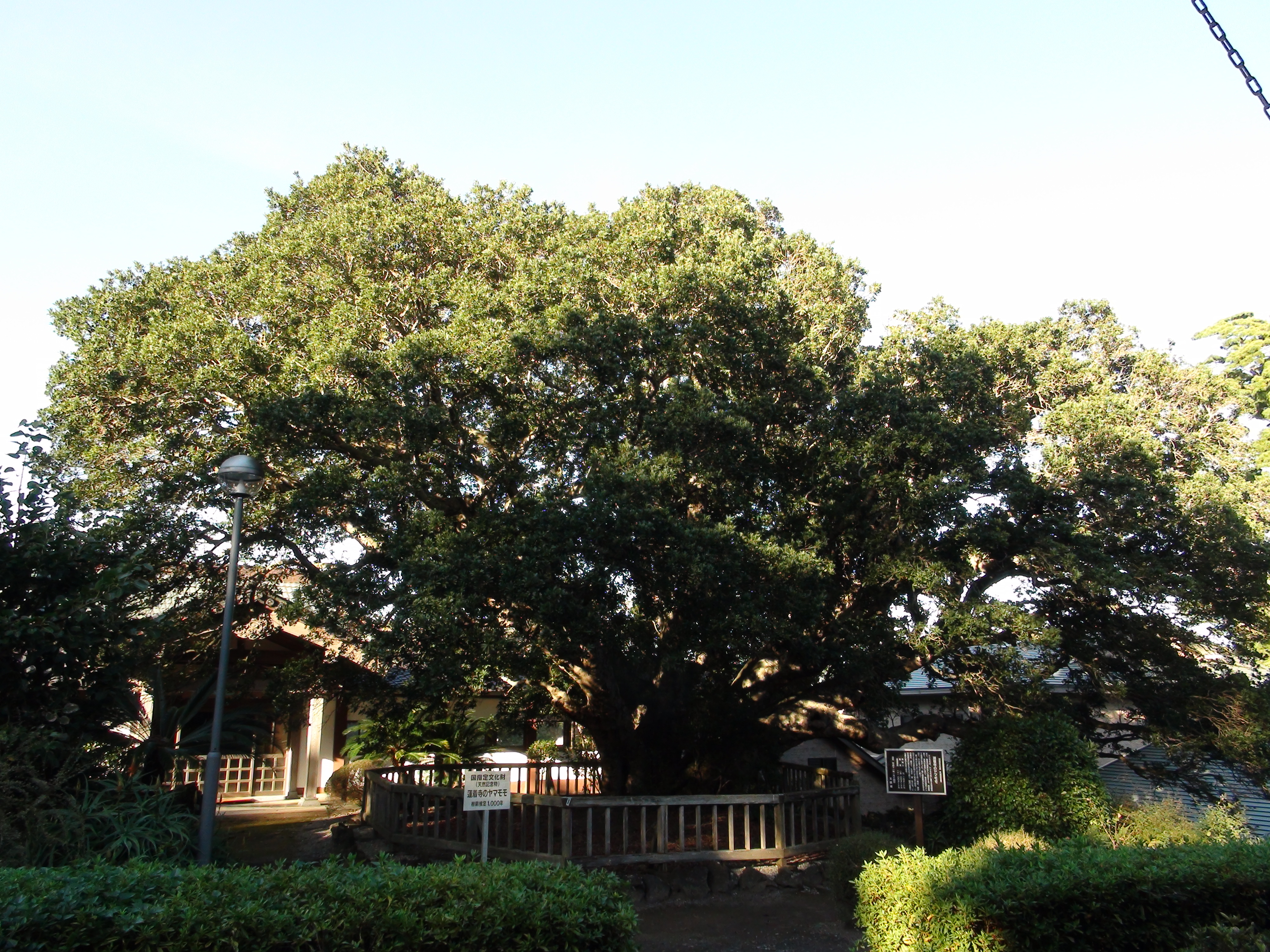 Myrica rubra of Renchaku-ji temple.Ito city.